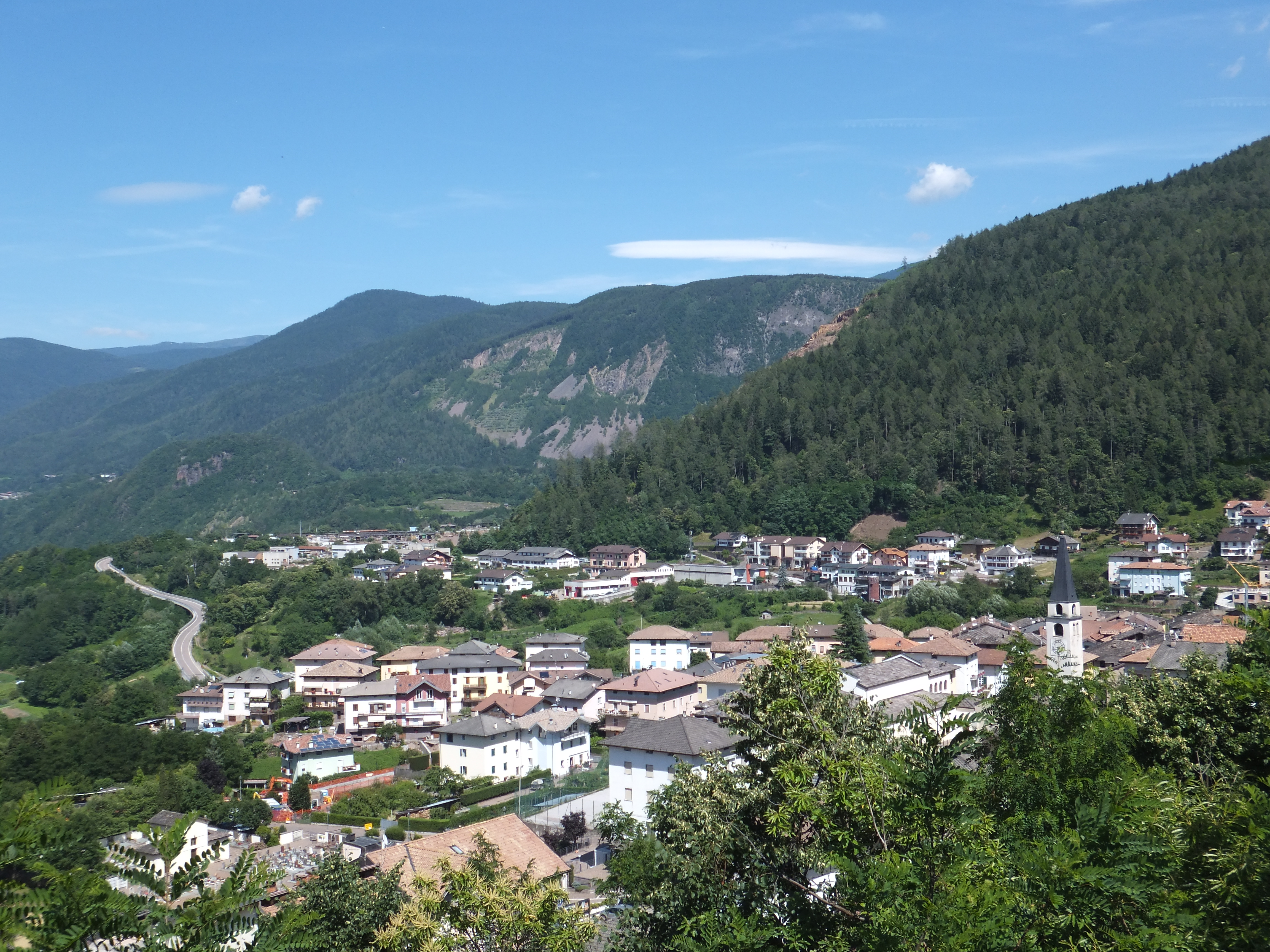 Albiano (Trentino, Italy) - View